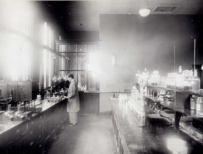 Photograph of Davyhulme Laboratory, Manchester in the early 20th century